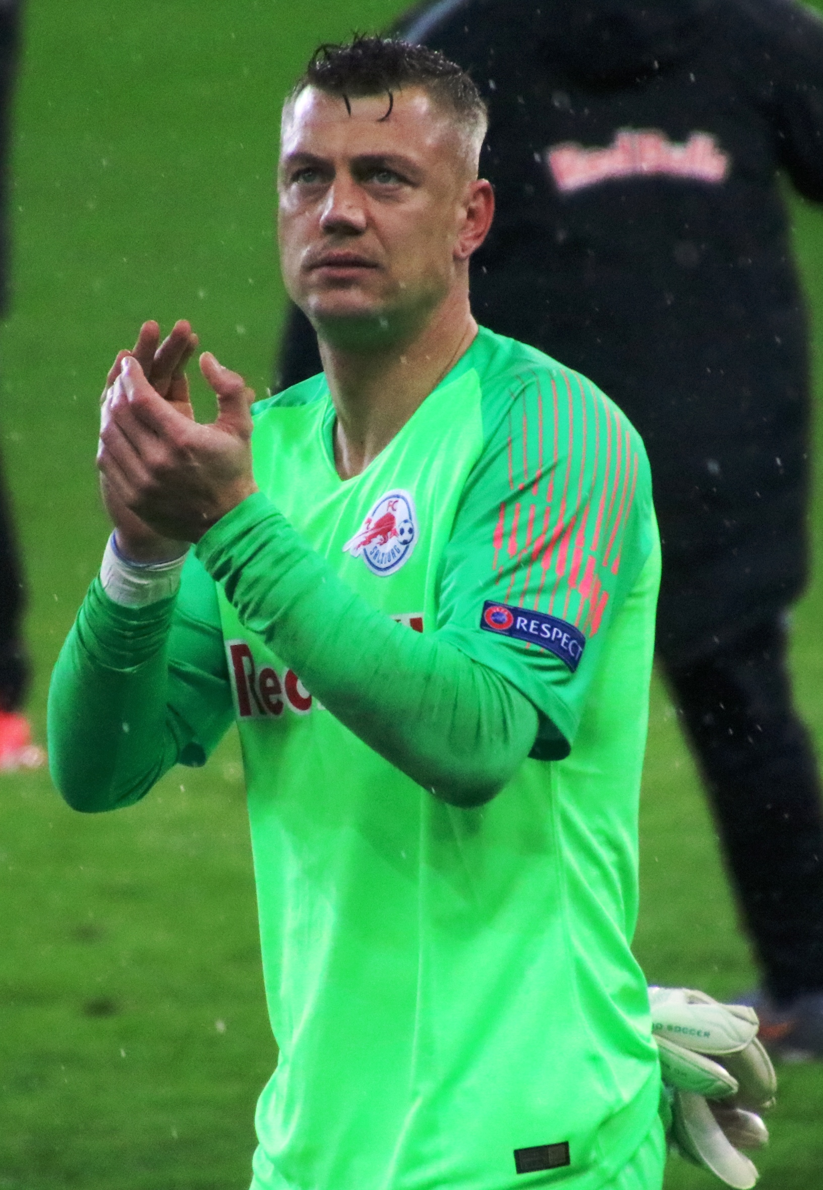 Euroleague round of 16 2nd leg